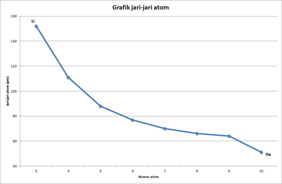 Graphical trend of period 2 elements for the atomic radius